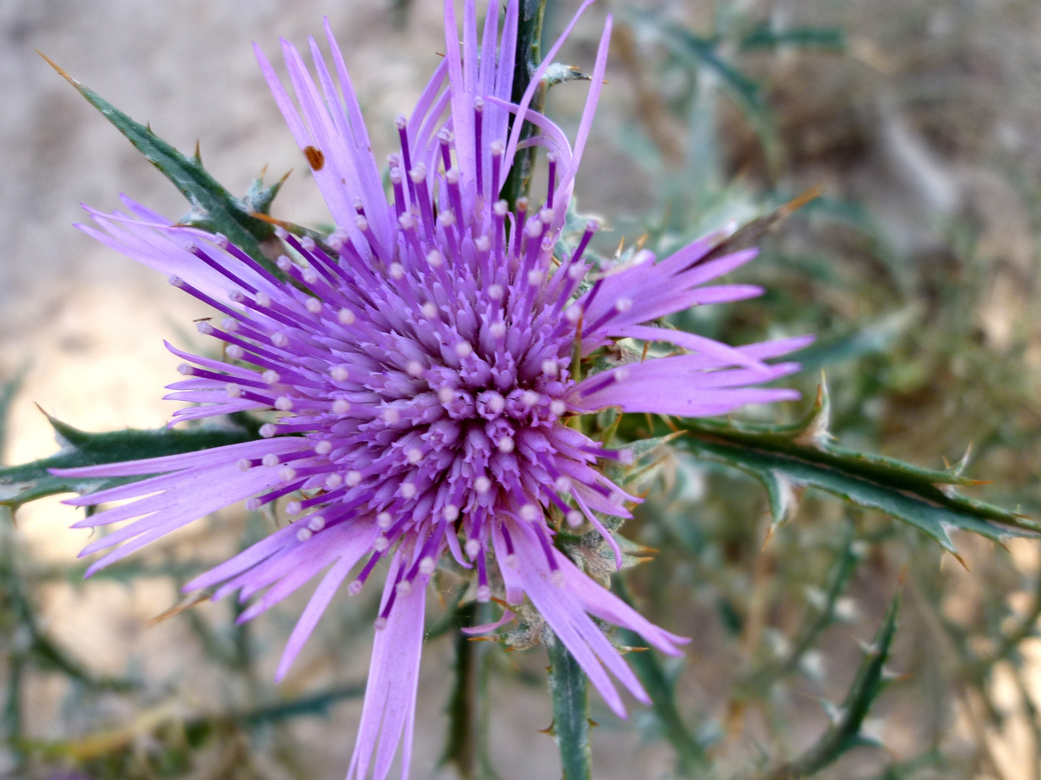 Atractylis humilis. In Torà (Segarra- Catalunya). On 565 m. altitude